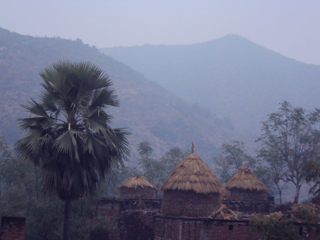 captured by me